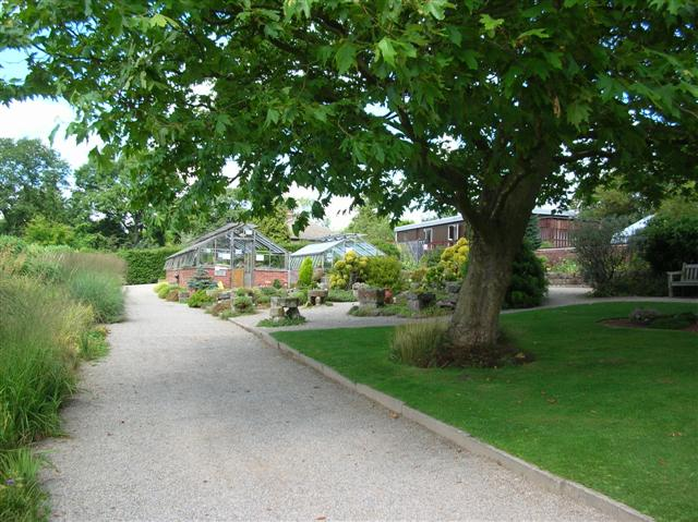 Harlow Carr - Greenhouse. Harlow Carr is a 58 acre botanical garden in Harrogate. The gardens were formed in 1947 by the Northern Horticultural Society, only being amalgamated with RHS Wisley in 2001. On the left here is the grasses border, and in the centre two of the greenhouses. For a botanical garden, Harlow Carr has very few greenhouses.